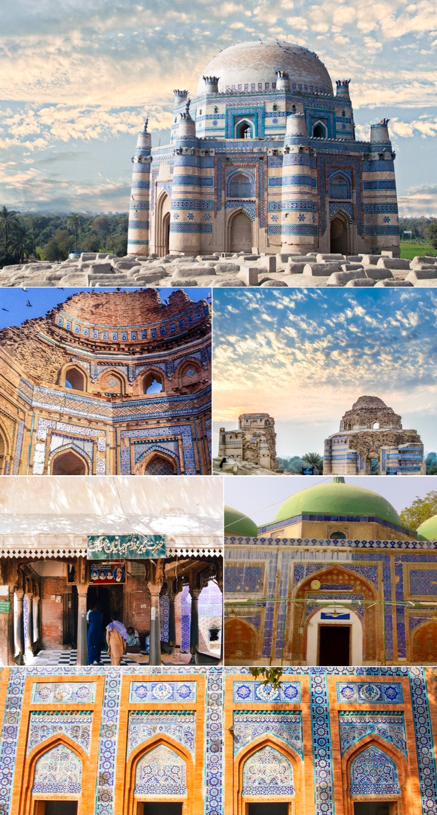 A montage of various sites in Uch, Pakistan